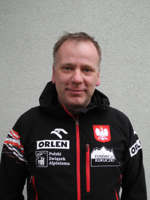 Photography of Polish Himalaist and climber Artur Hajzer